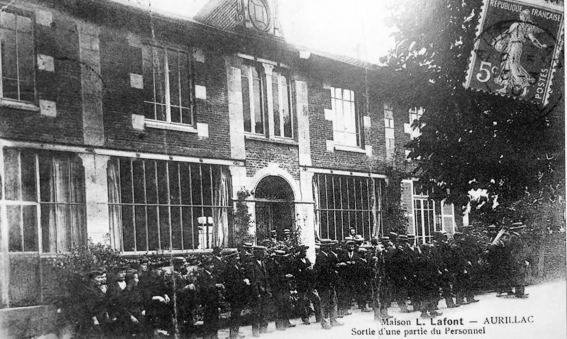 PostCard